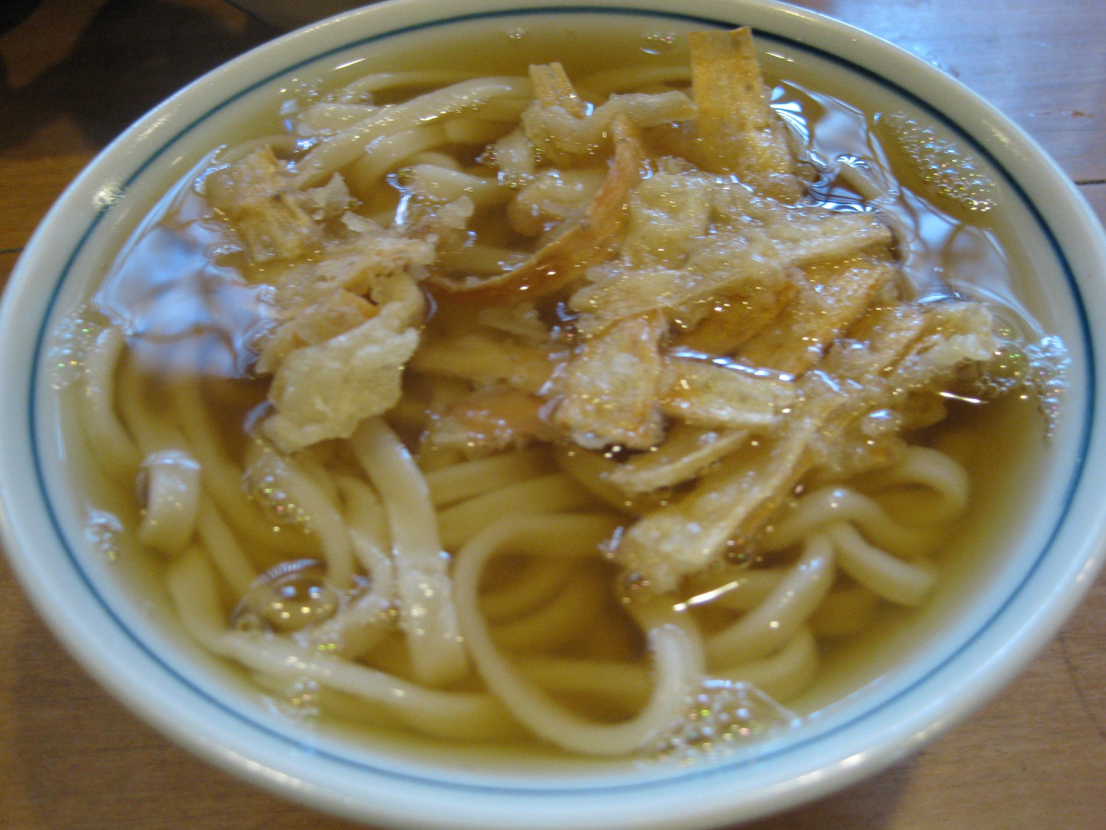 Goboten-udon in Fukuoka